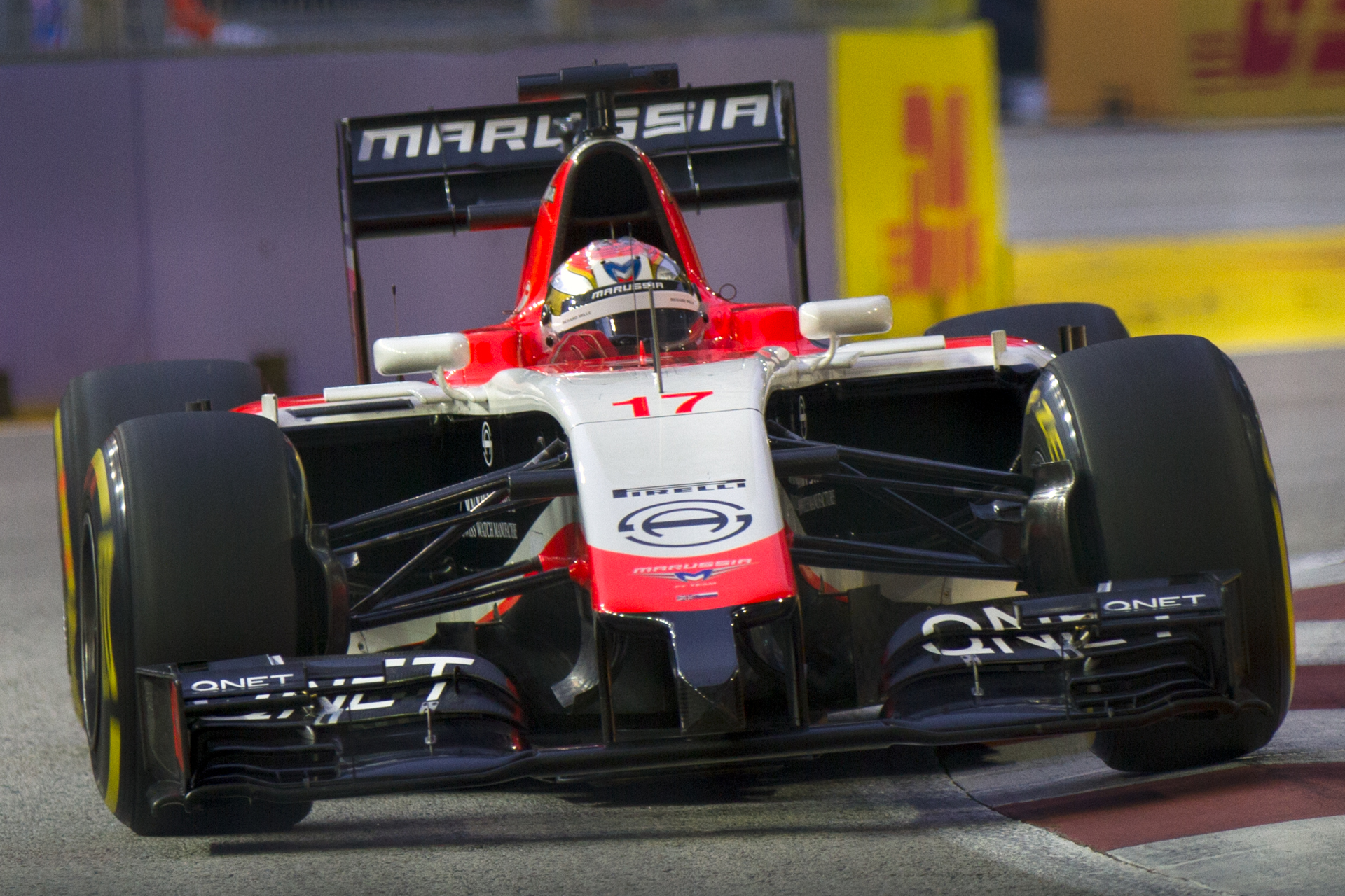 Formula One 2014 Rd.14 Singapore GP: Jules Bianchi (Marussia)